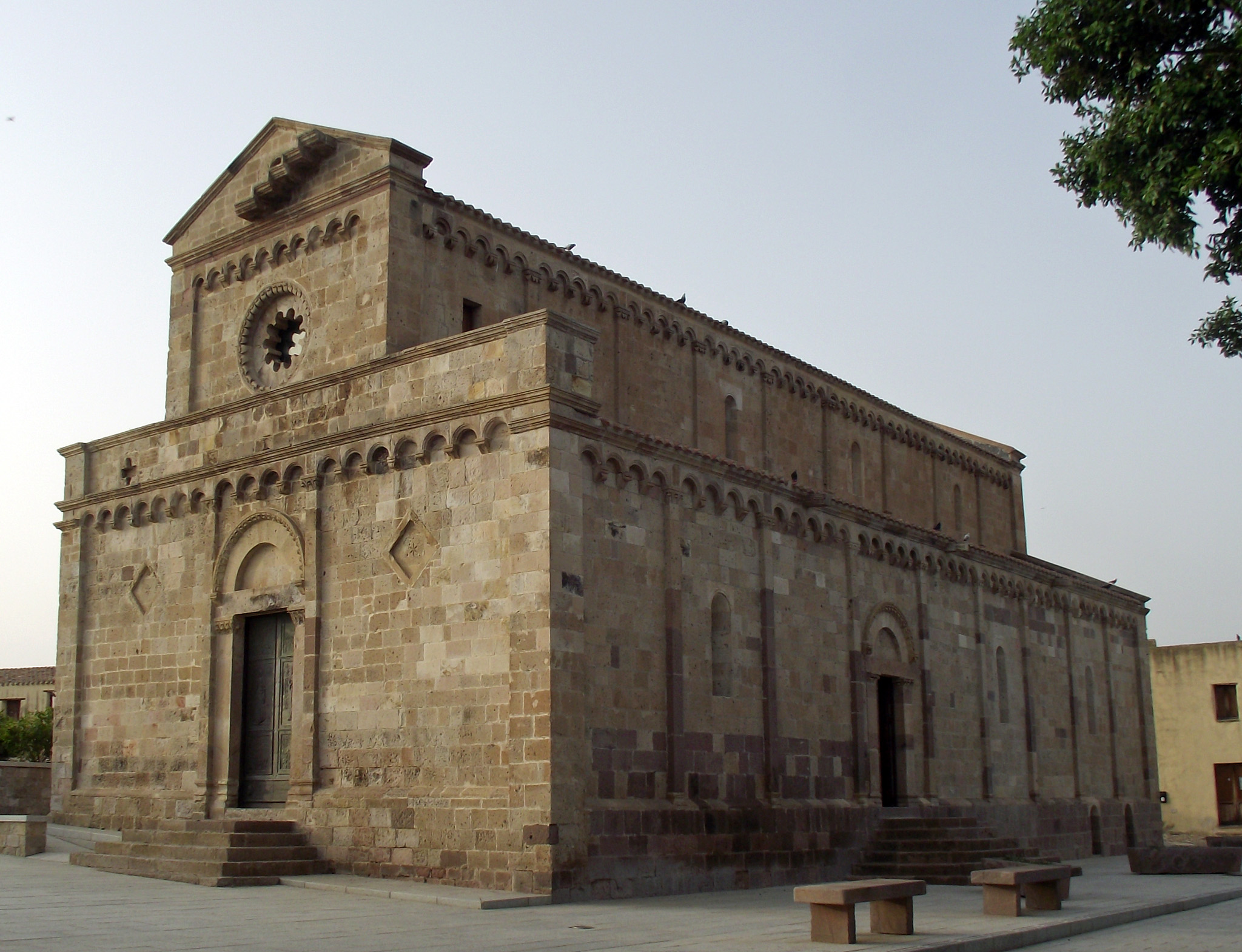 The Santa Maria di Monserrato church (former cathedral) in Tratalias, Sardinia, Italy, built in 13th century.